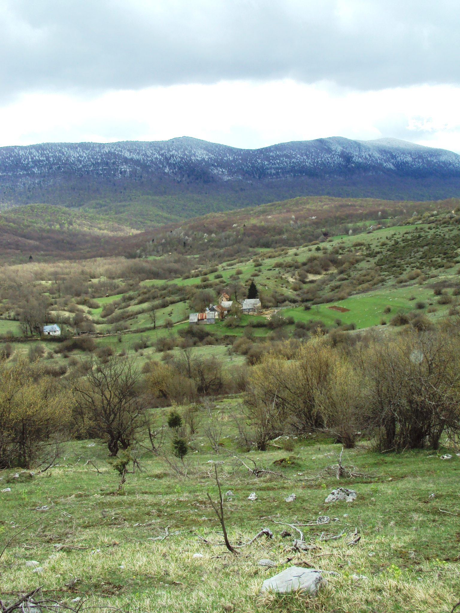 The village of Gorići near Otočac, Region of Lika, Croatia